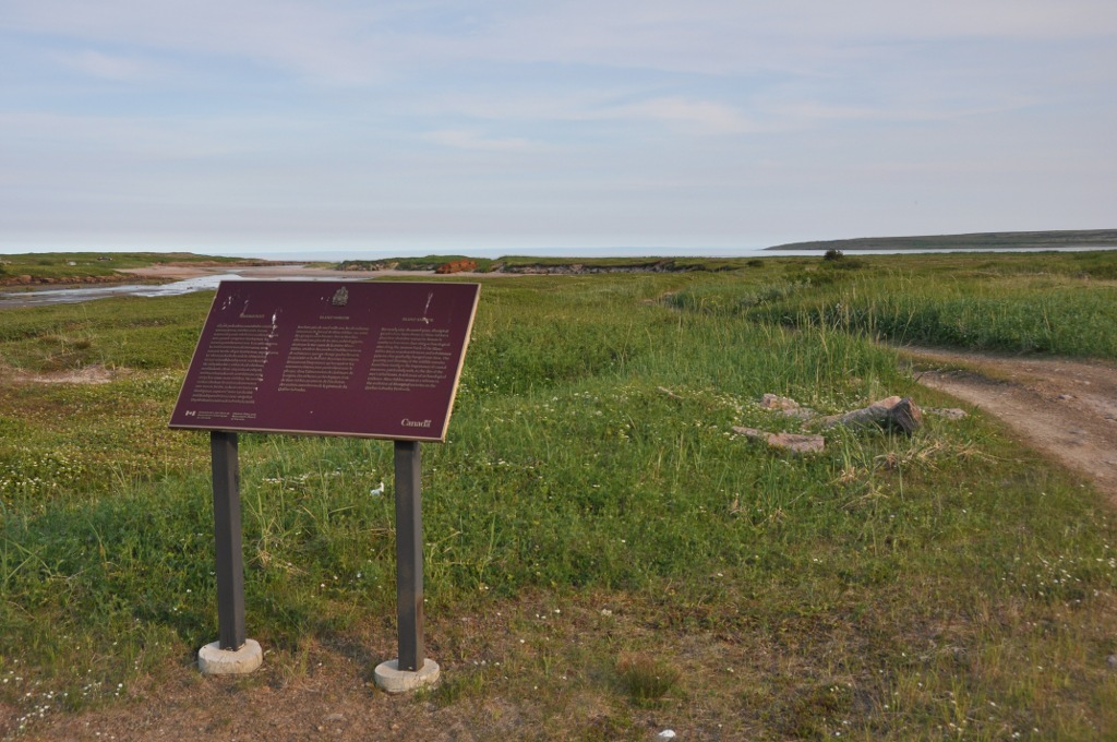 Blanc-Sablon National Historic Site of Canada, red plaque.